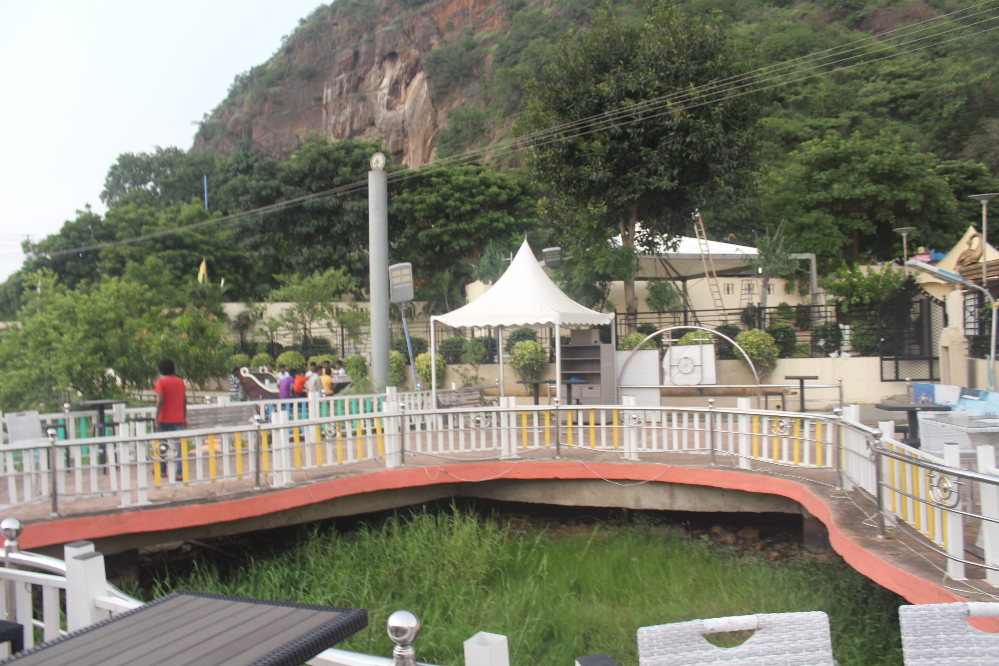 The resort has boating facilities to Bhavani Island and a tour around the reservoir of Prakasam Barage.